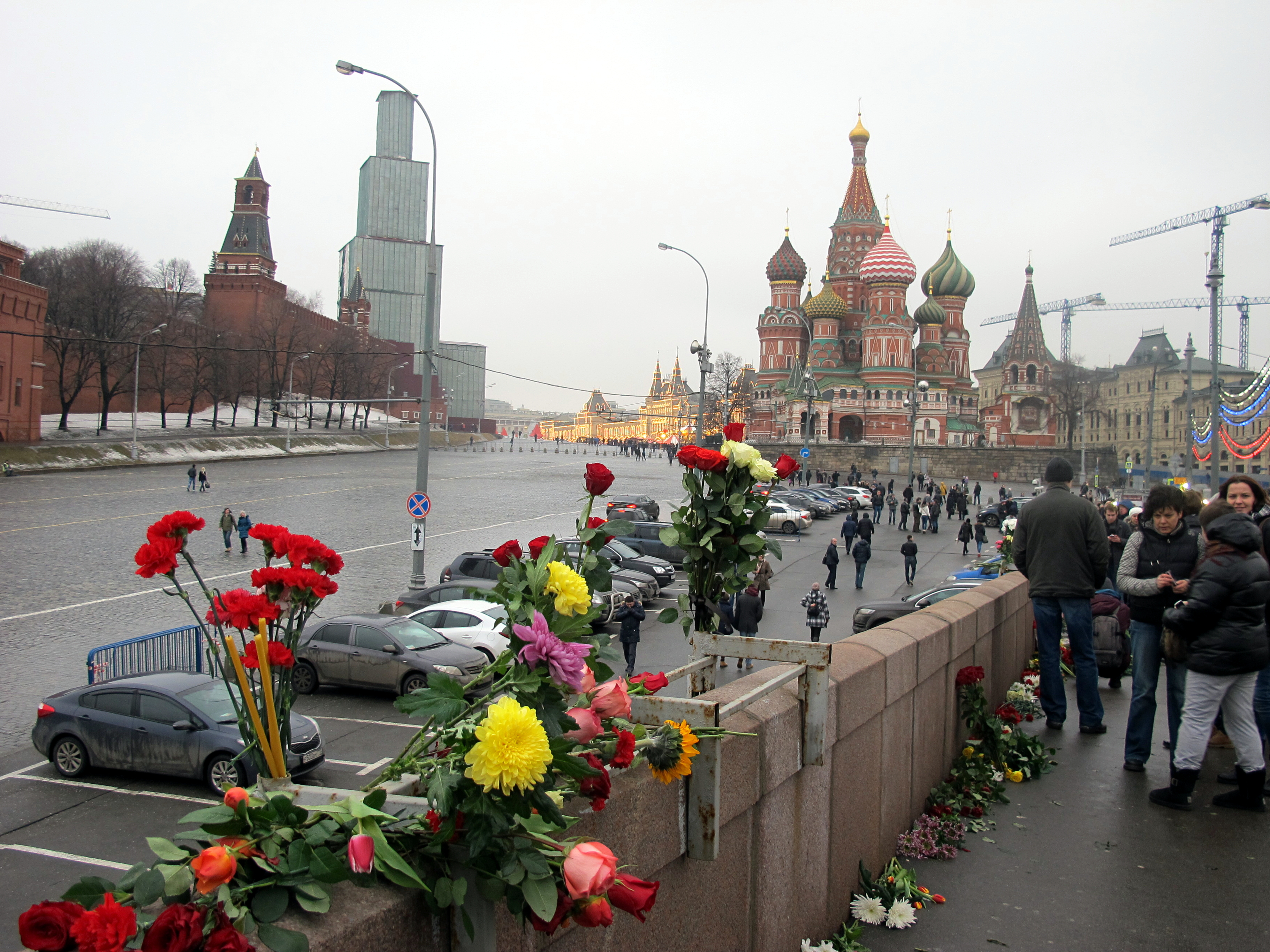 People came to the side of Boris Nemtsov's murder (2015-02-28)